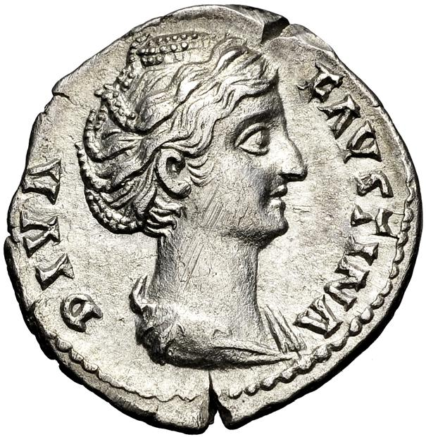 Faustina I Denarius